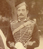 Portrait of Sir Webb Gillman. Official War Office Photograph. NPG. Pre-1955 so in the public domain.